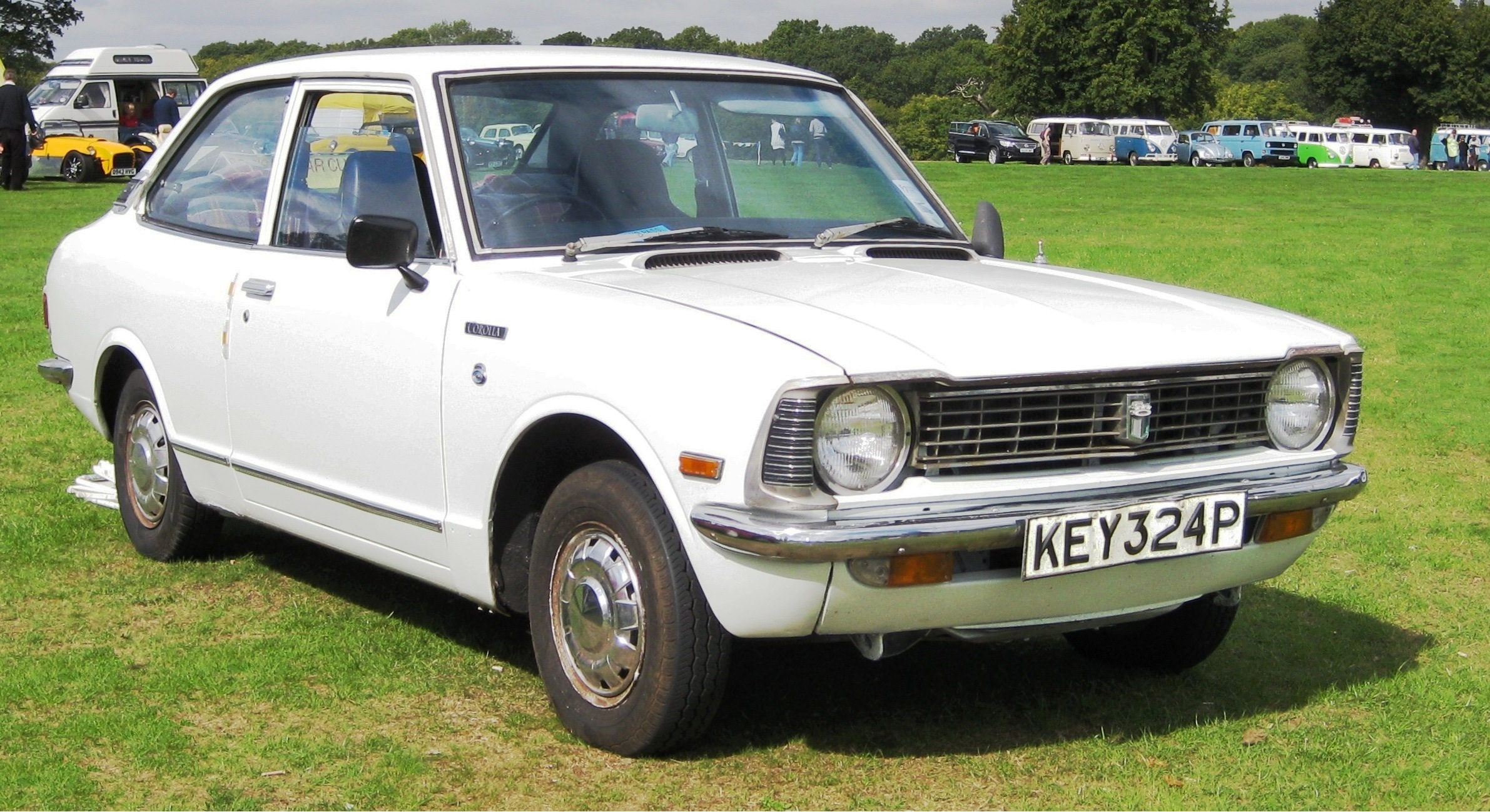 Toyota Corolla E20 at Classic Car Show Knebworth. English wikipedia indicates (in August 2010) that "production of most models" stopped in 1974 but this model continued to be marketed after its successor had been introduced, in some markets until 1978. The paradox is not one on which the manufacturer's marketing department will be likely to shed much light, but the rapid rise in world oil prices of 1973 and the ensuing world-wide economic crisis left many auto-makers with large stocks of new cars for which no buyers, in the shorter term, could be found. In these circumstances it is likely that many of the wiser auto-makers will have stored their stocks of unused new cars for however long it took, judiciously continuing to sell them as new cars from the (in more critical markets already replaced) older range even though they had been stored unused for some time.